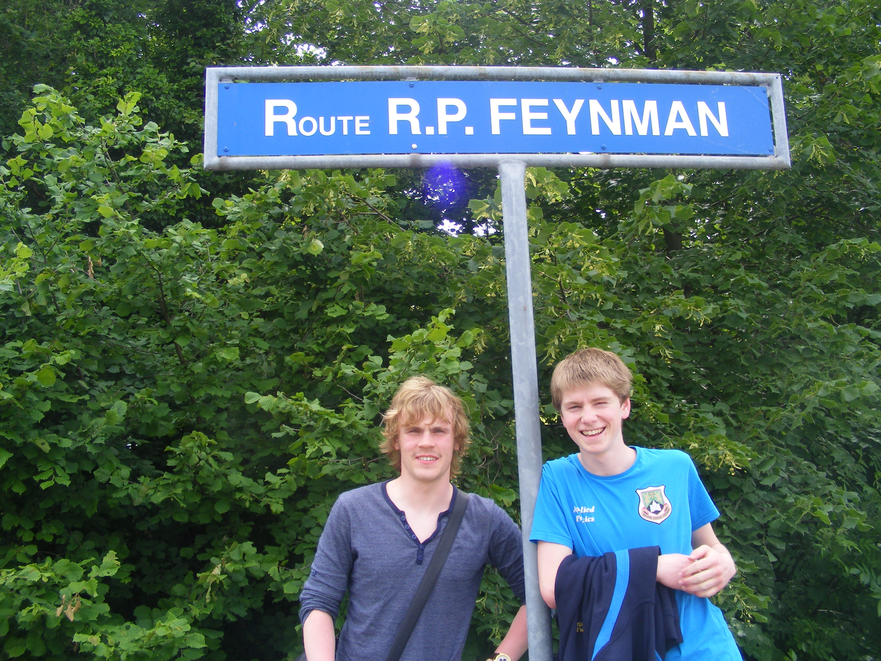 Two students at the sign for the Route De Richard Feynman on the CERN campus.